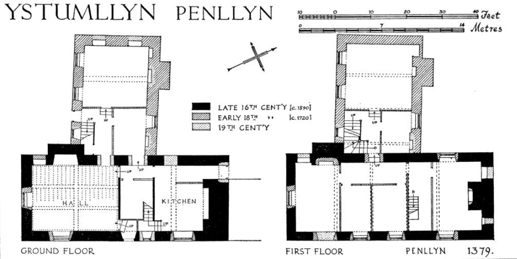 Plan of Ystumllyn estate from the Inventory of the Ancient Monuments in Caernarvonshire (1964).